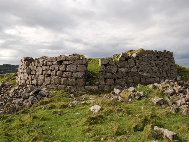 Dun Ardtreck This 'semi-broch' is D-shaped with the straight side formed by the edge of the cliff (out of sight in this view at the back). The visible wall is about 6ft tall. The entrance has a raised threshold, door-checks and a guard cell on the right.